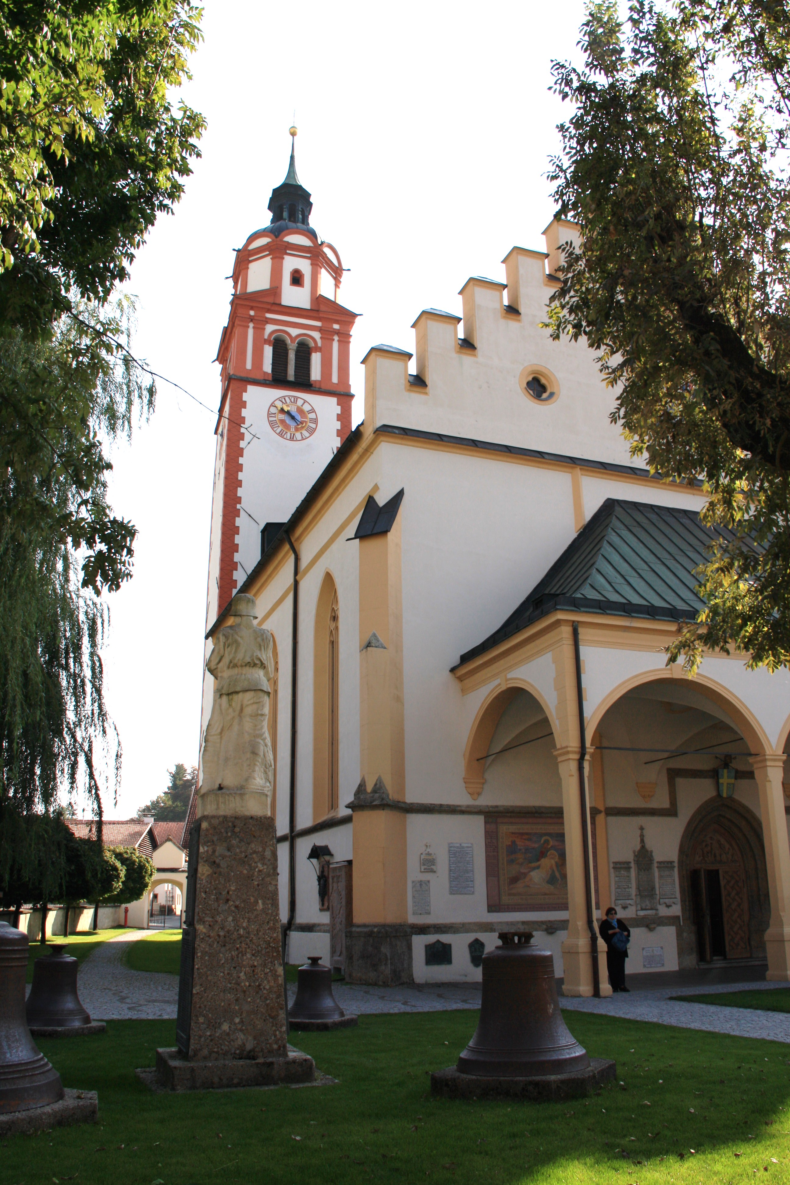 Austria, Tyrol (state), Absam. The Basilica was built in 1420 by Hans Sewer and completed in 1440.